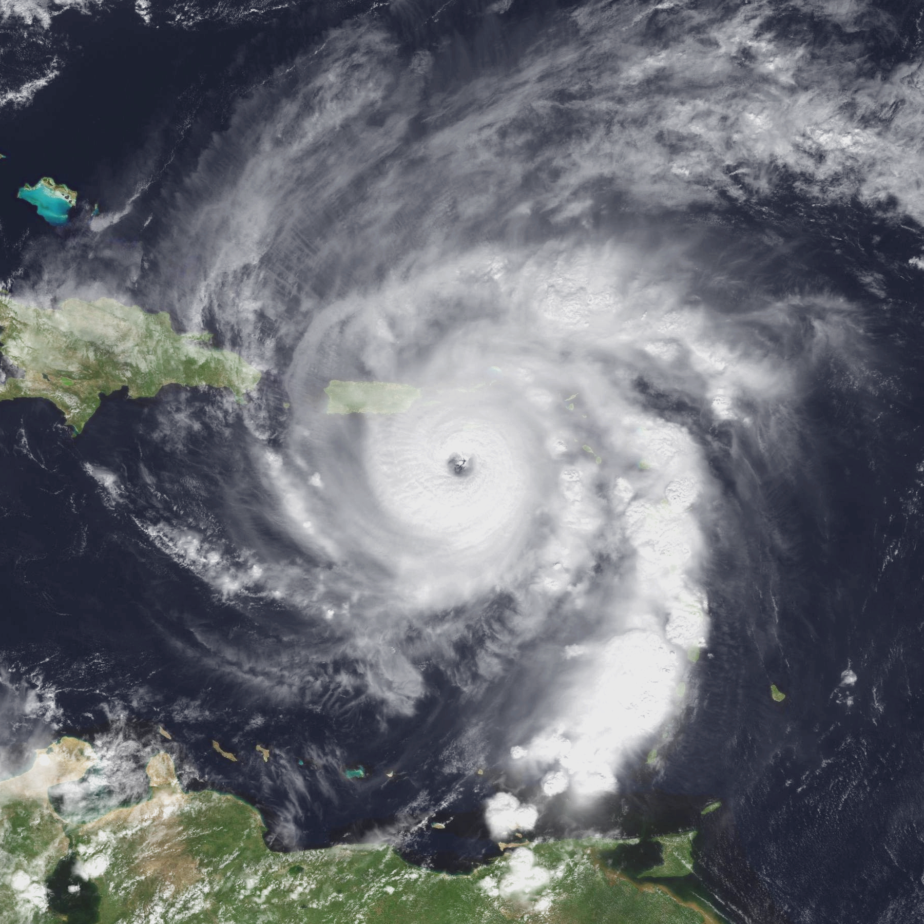 Hurricane Lenny near peak intensity southeast of Puerto Rico on November 17, 1999